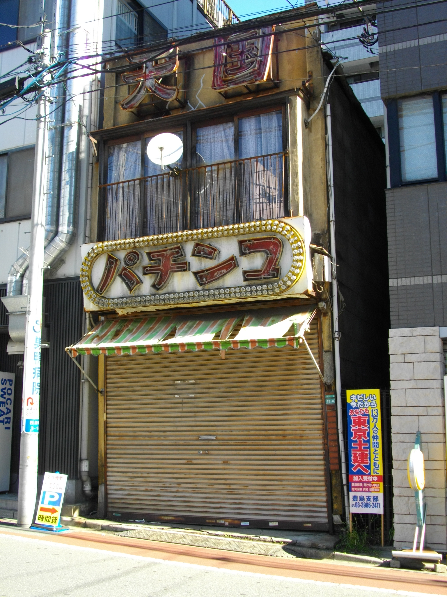 Pachinko Tengoku (Pachinko parlor)